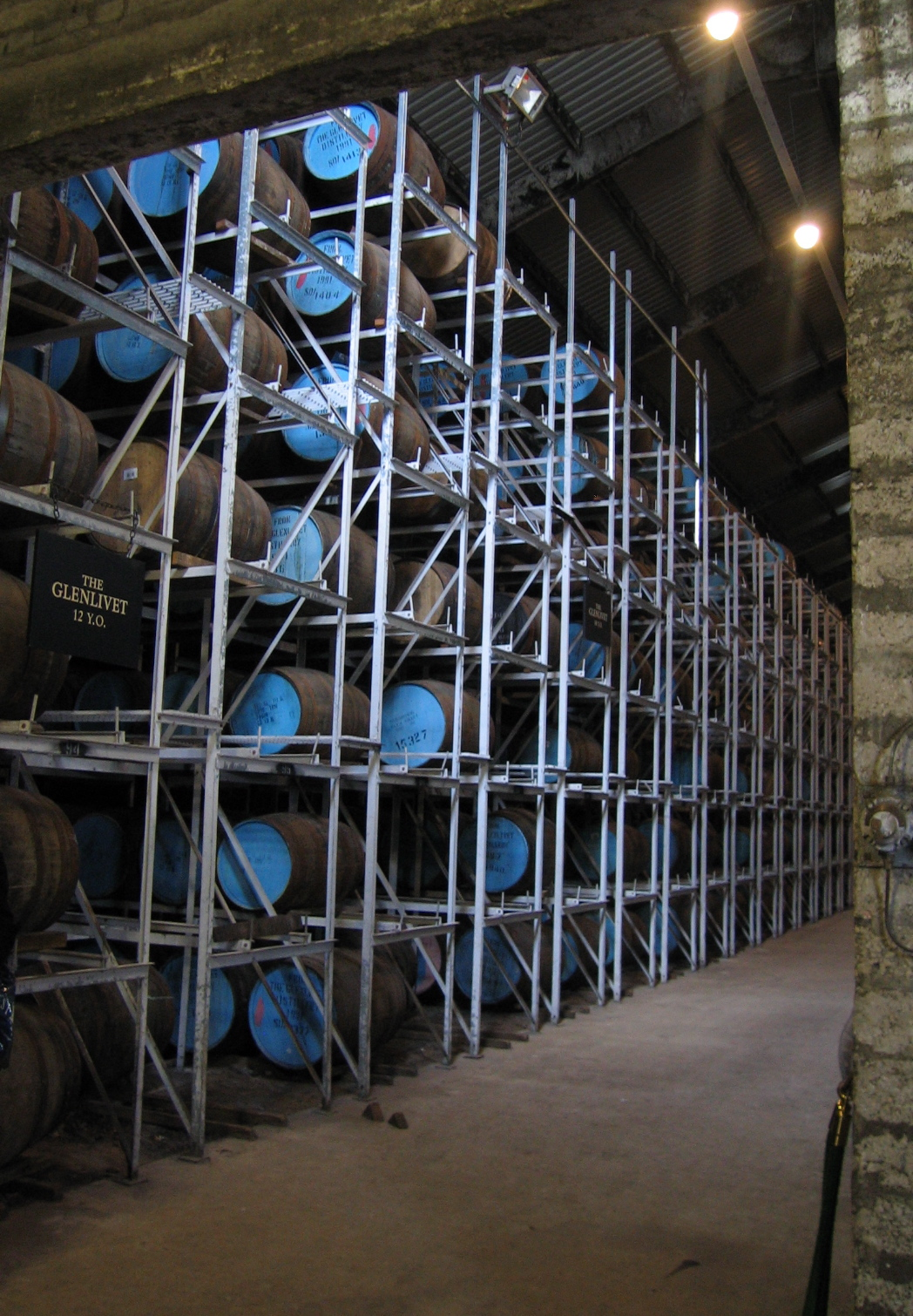 Warehouse for maturing of Glenlivet Distillery in Scotland